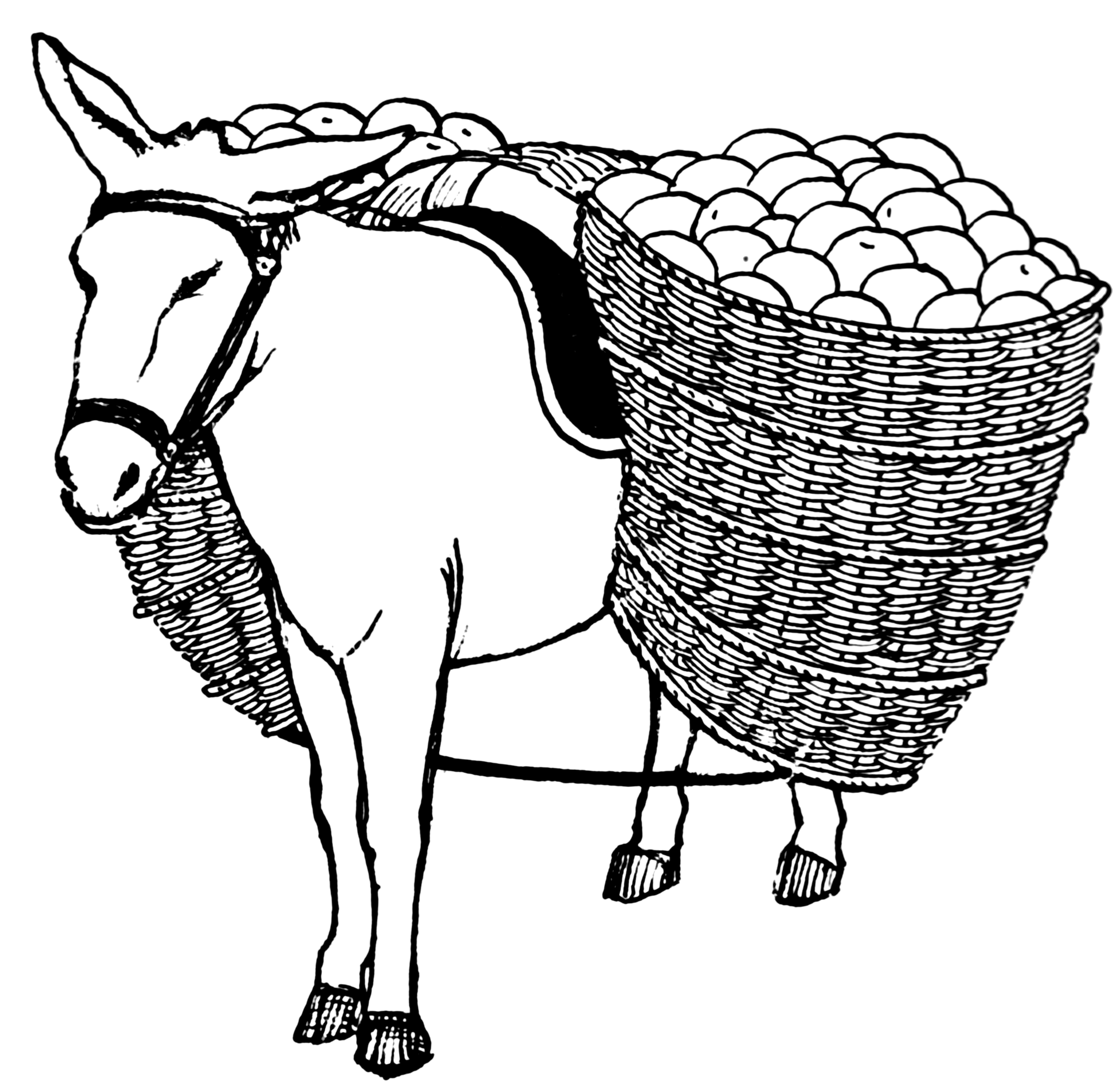 Line art drawing of pannier.